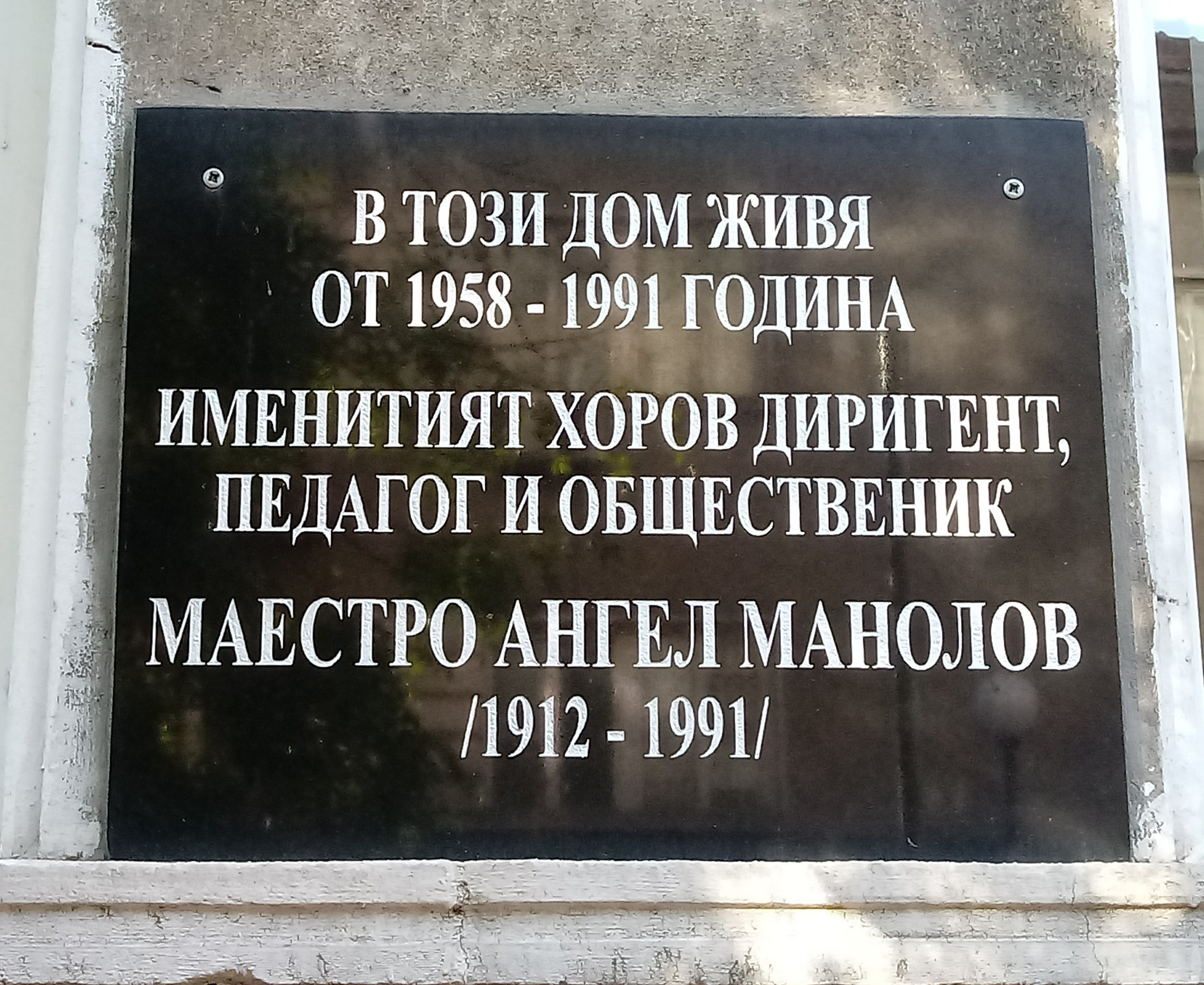 Angel Manolov memorial plaque, 39 Shipka str., Sofia